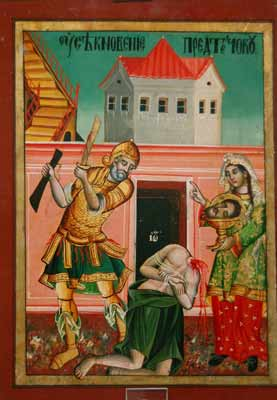 St. Nikita Church Banjani Dich Zograf John the Baptist